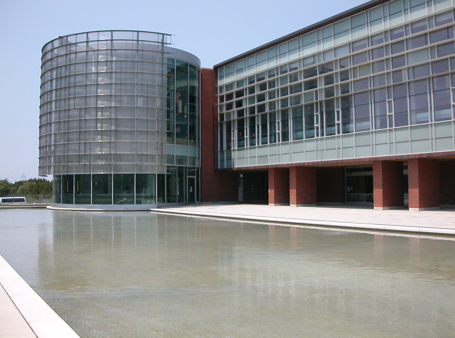 University of Ontario Institute of Technology Library.